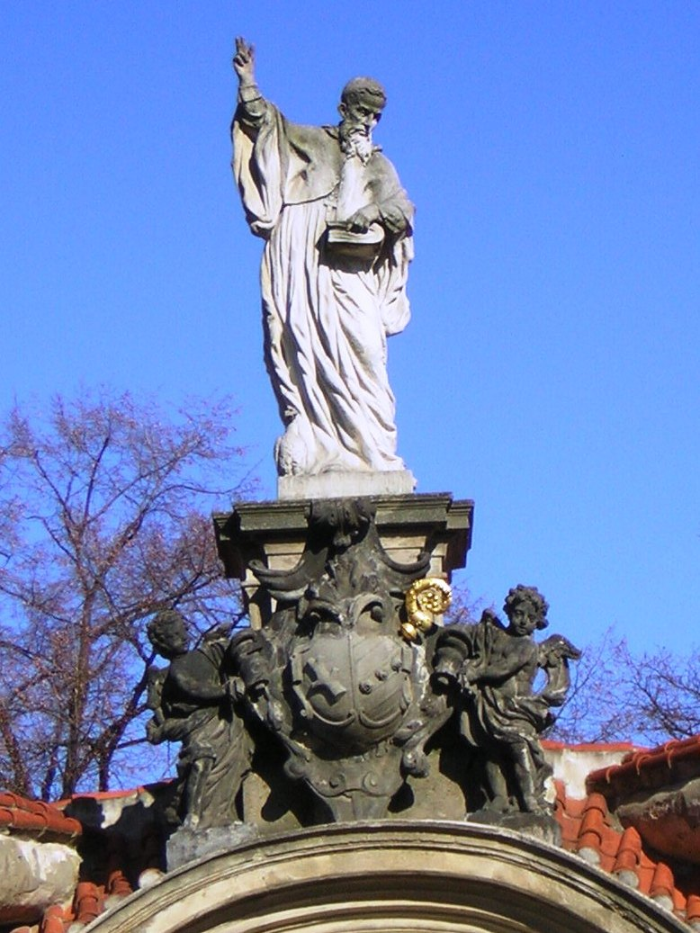 St. Benedict statue by Karl Joseph Hiernle above main entrance of Břevnov Monastery in Prague.